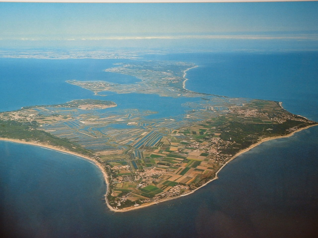 Personal snapshot of Île de Ré, an island in the Atlantic Ocean, off the coast of La Rochelle, Charente-Maritime, France.